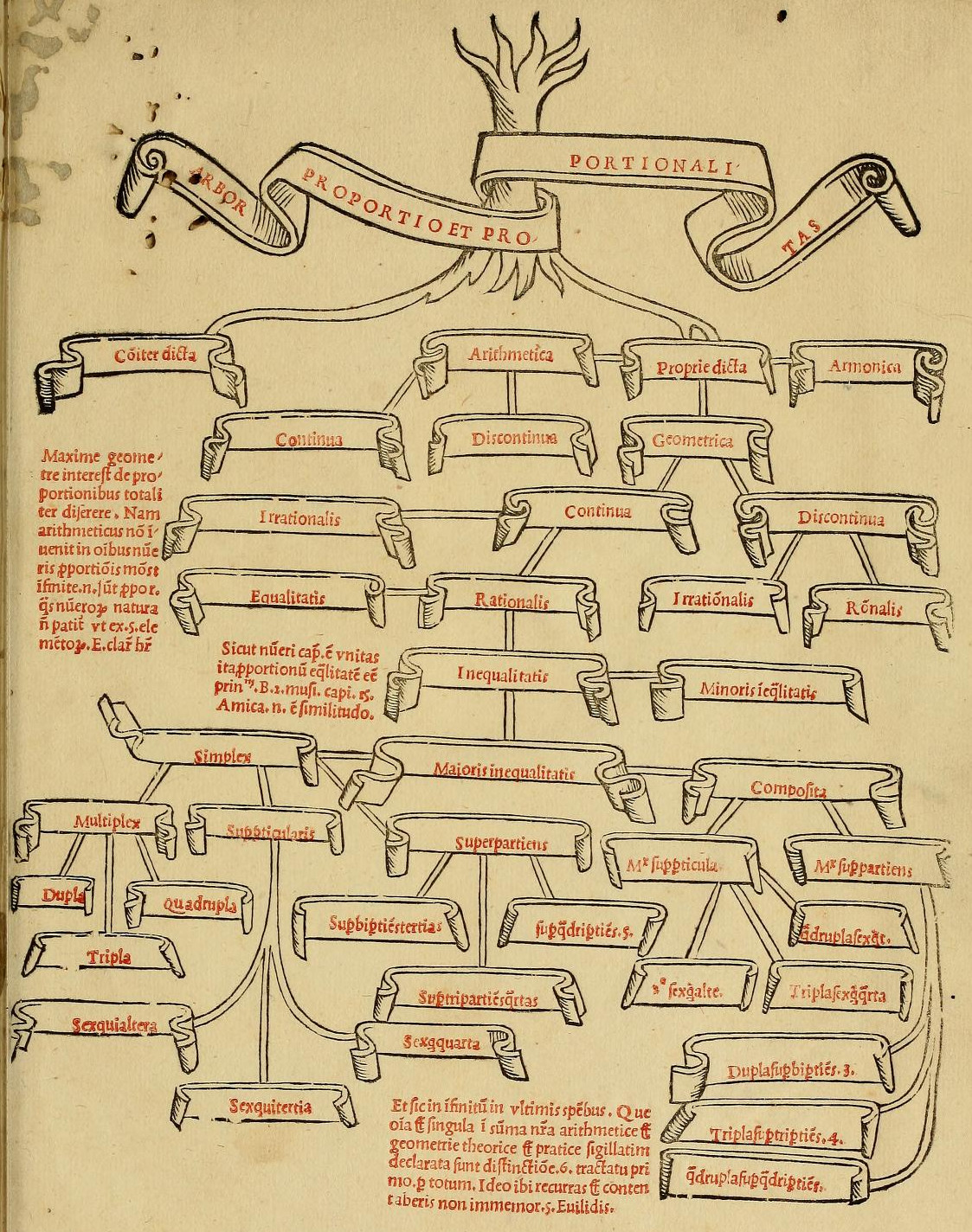 Illustrations by Leonardo da Vinci, from Luca Pacioli's "De divina proportione", 1509 edition.